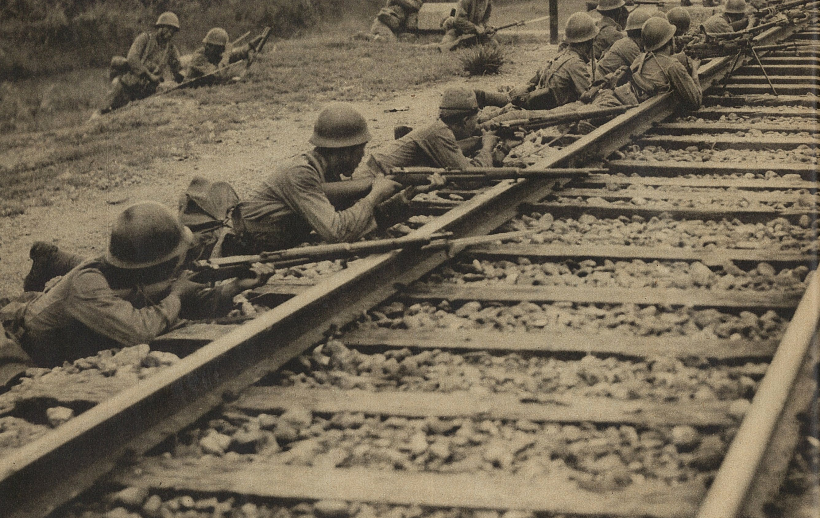 Selection of the September 1st 1937 ASAHIGRAPH magazine. The image depicts the Imperial Army soldiers protecting a railroad near Zhang xin dian (12km from Beijing). Photo from August 10th.